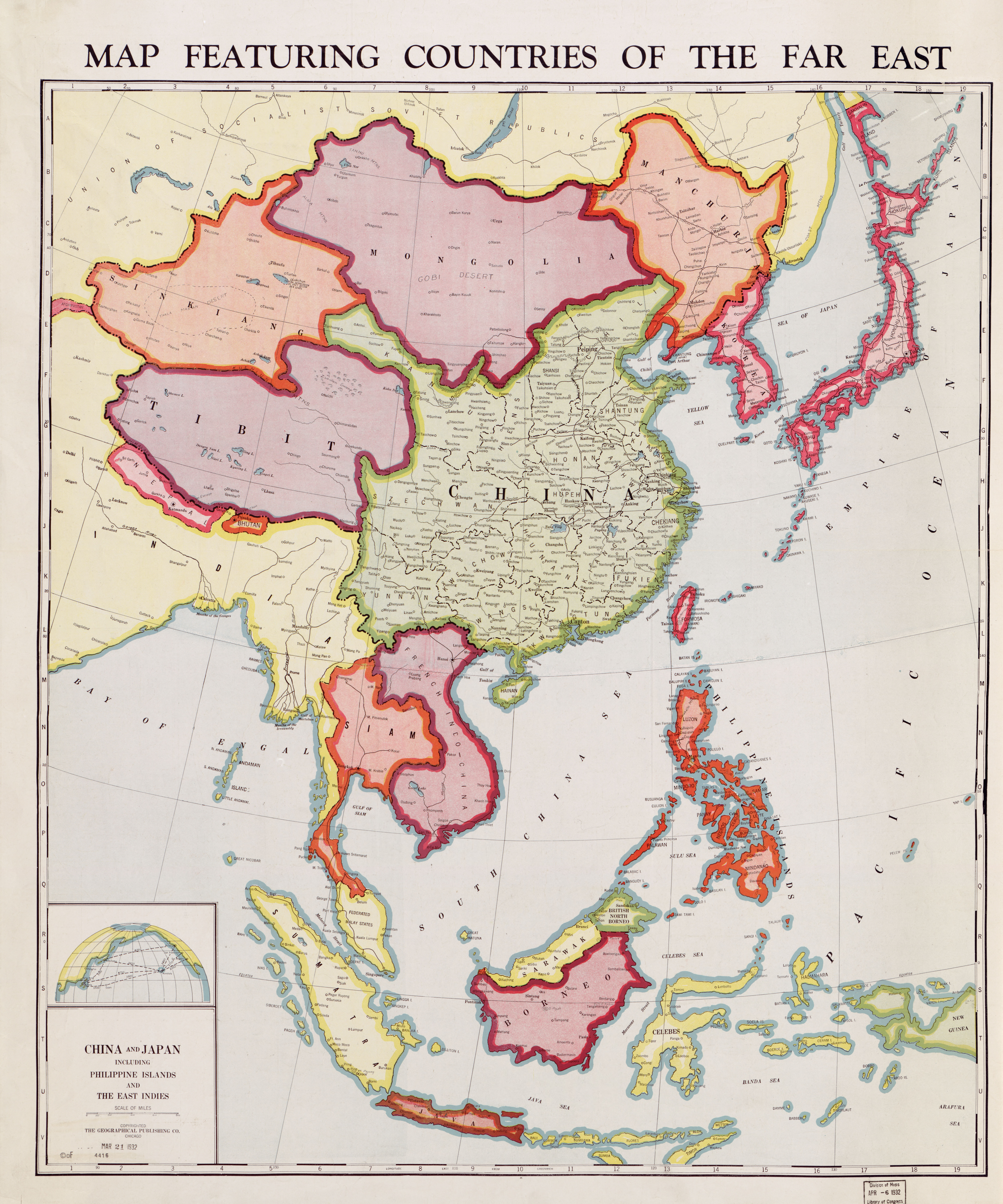 Map featuring countries of the Far East.